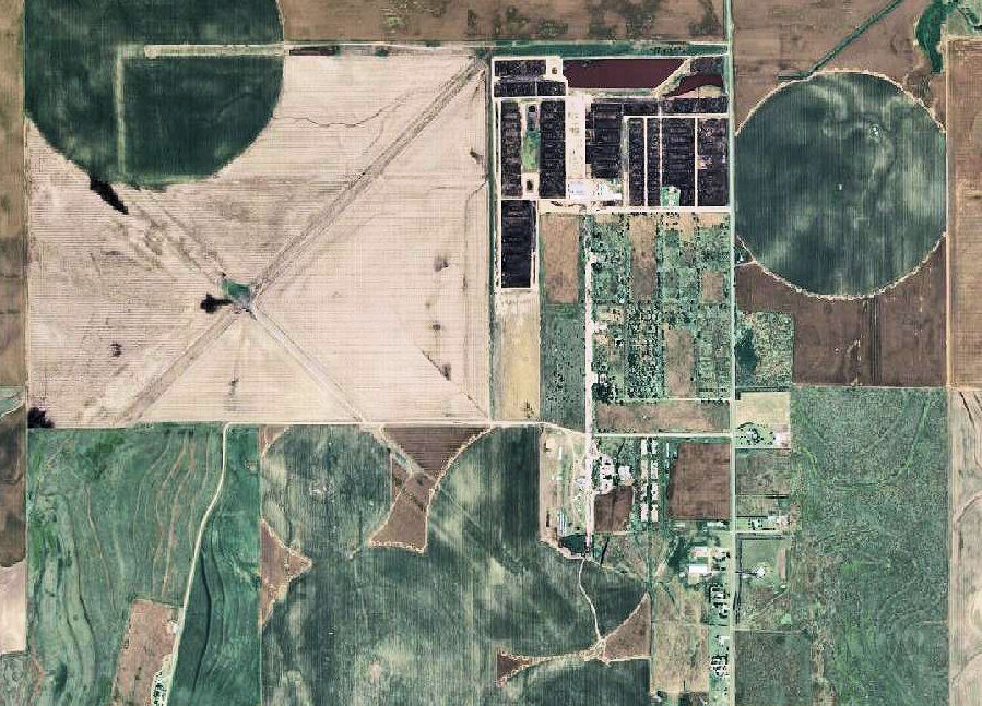 USGS orthophoto showing location of former Dodge City Army Airfield in Kansas, United States